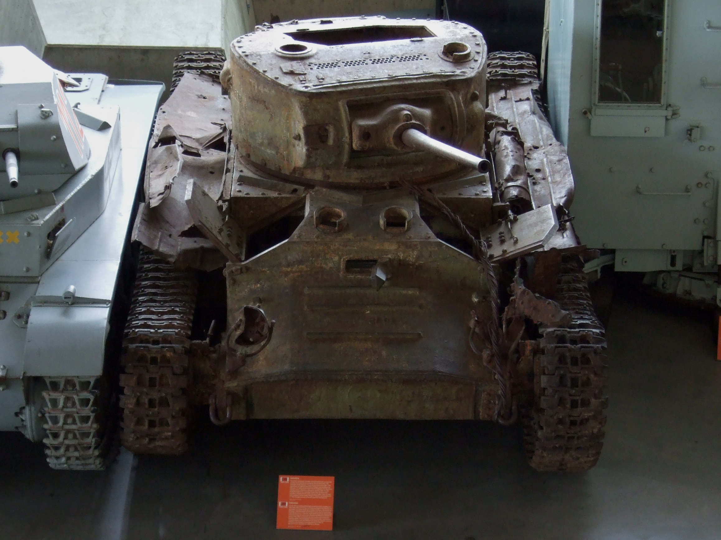 Valentine Tank Mk VIIA, no. 838 at the Canadian War Museum. Built in Montreal, Canada, and sent to the Soviet Union under Lend Lease. Fell through ice near Telepino, Soviet Ukraine (Telepyne, Ukraine) on 1944-01-25, recovered in 1990, and presented to Canada by Ukraine in 1992.